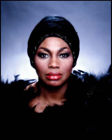 Leontyne Price (color) by Jack Mitchell